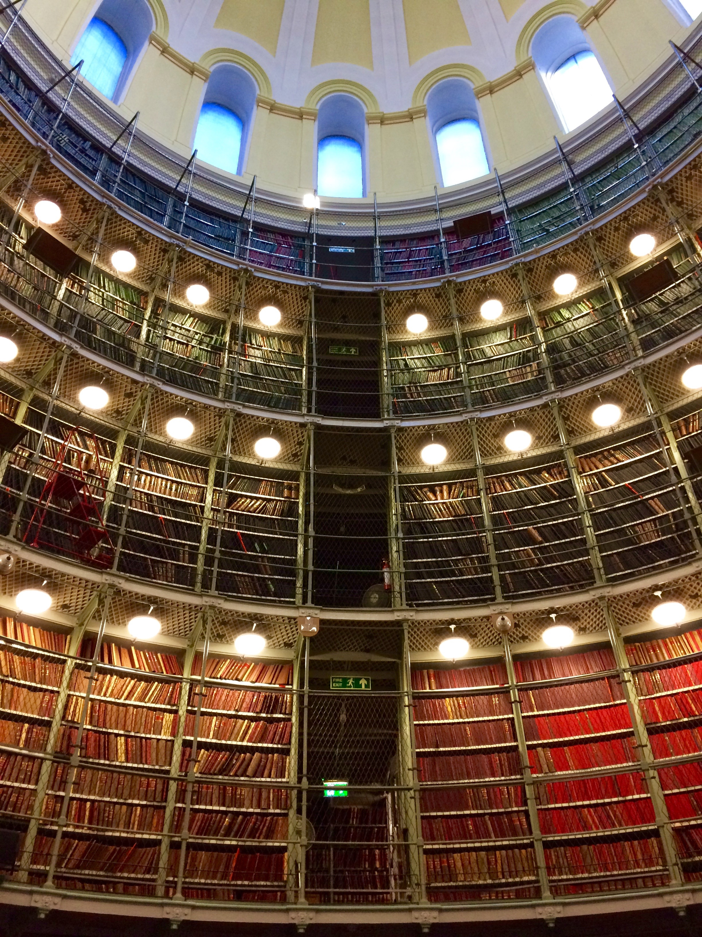 Edinburgh, Princes Street, General Register Office, Circular Record Hall.